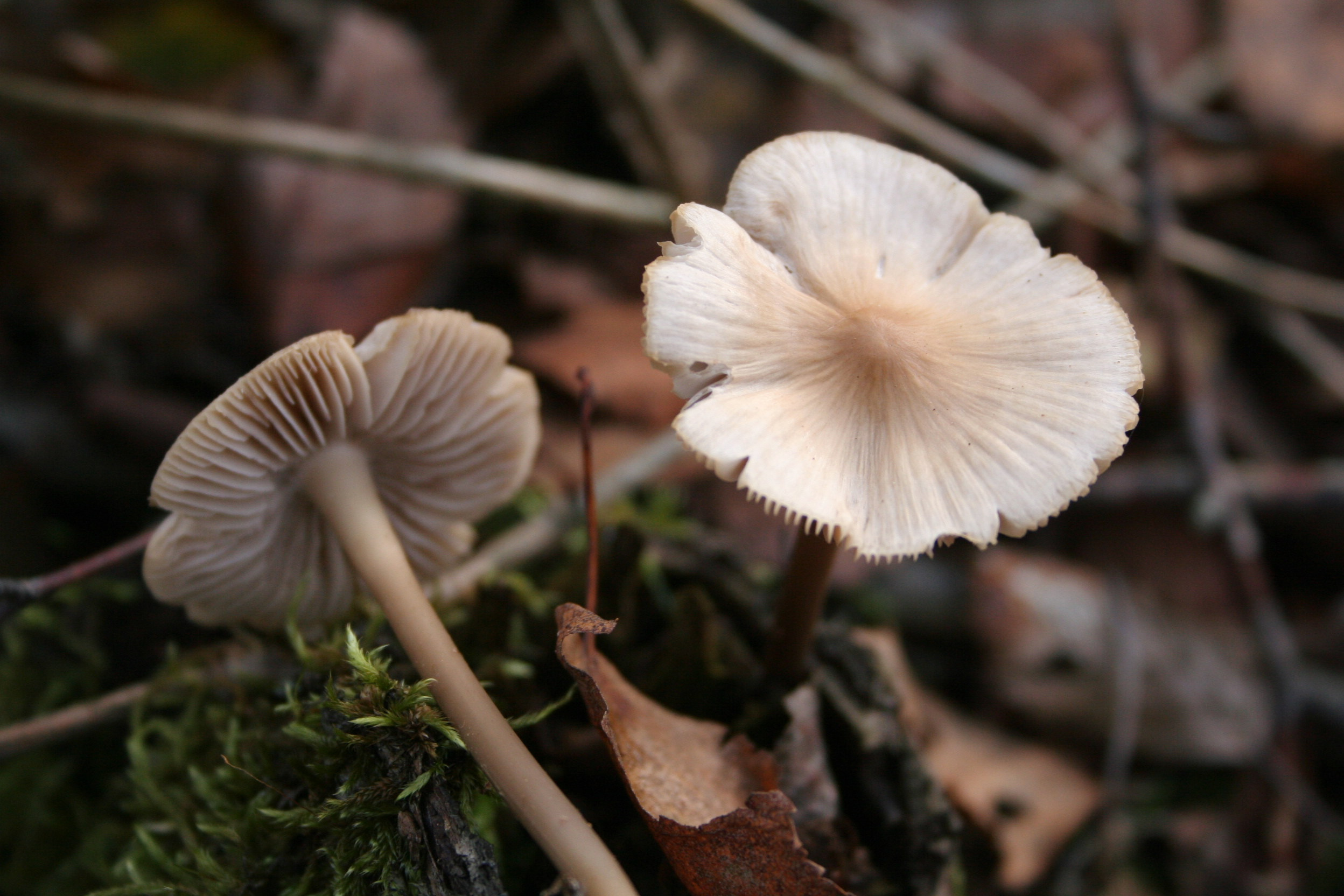 Mycena galericulata in a French wood.